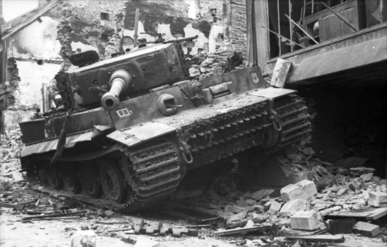 Information added by Wikimedia users.Unit = Heavy SS-Panzer Battalion 101